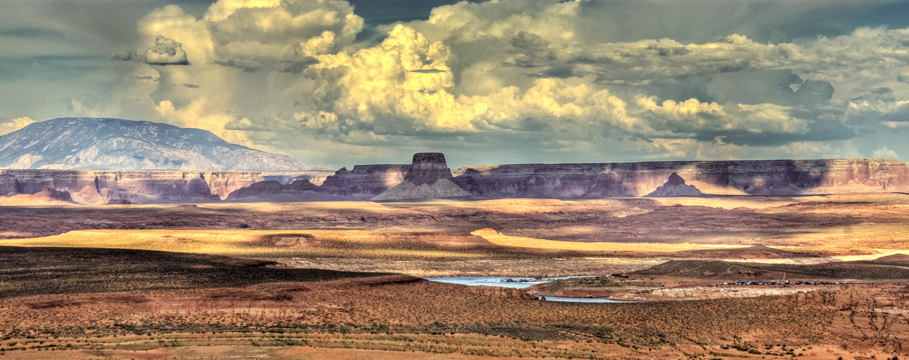 Colorado Plateau